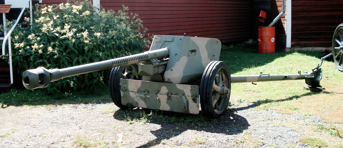 German PAK 40 75 mm anti-tank gun, displayed in Parola Tank Museum. Photo taken on July 14, 2006. Source: Photo by me, User:Balcer.